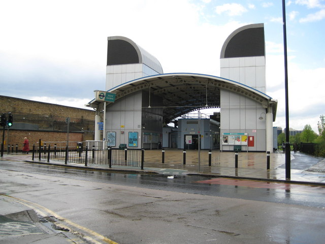 Island Gardens DLR station. I can add nothing to Neil's excellent caption for his photograph of the station 583391. The road in front of the station is the A1206 Manchester Road.